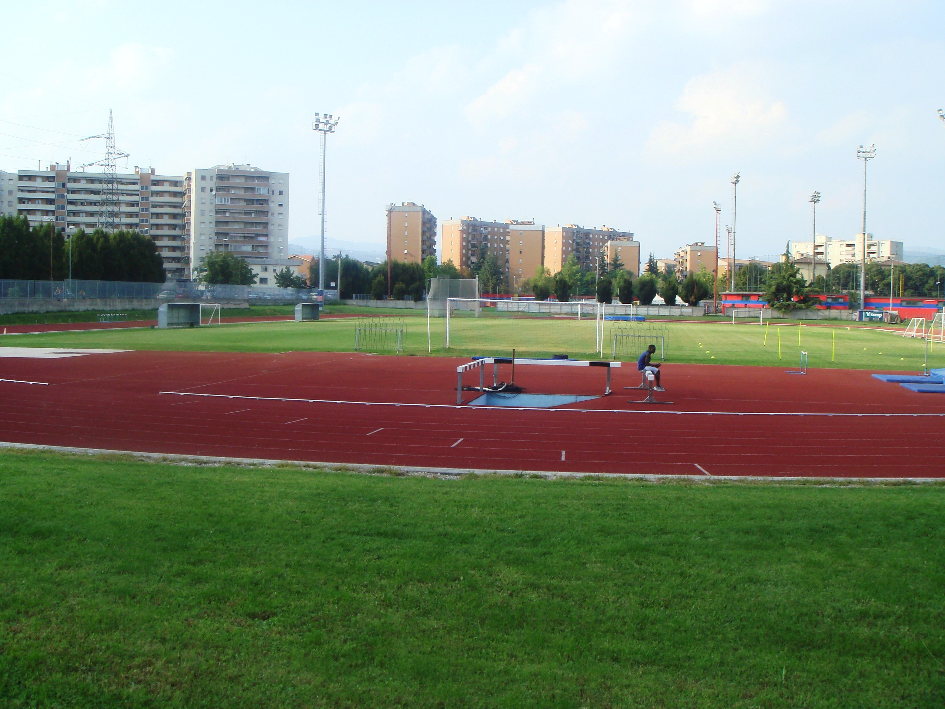 A sport field in East Verona, Italy